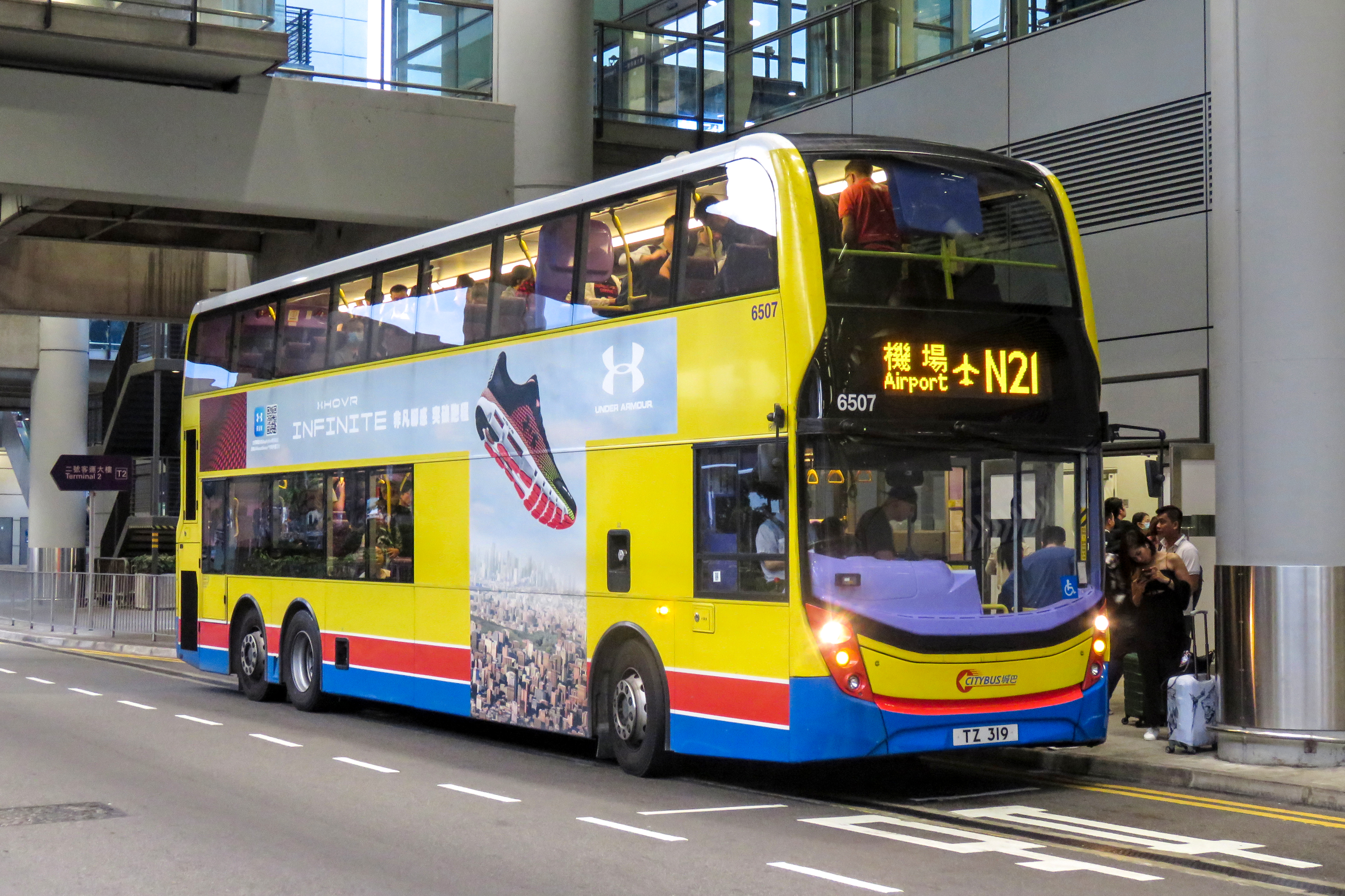 N21 under armour.